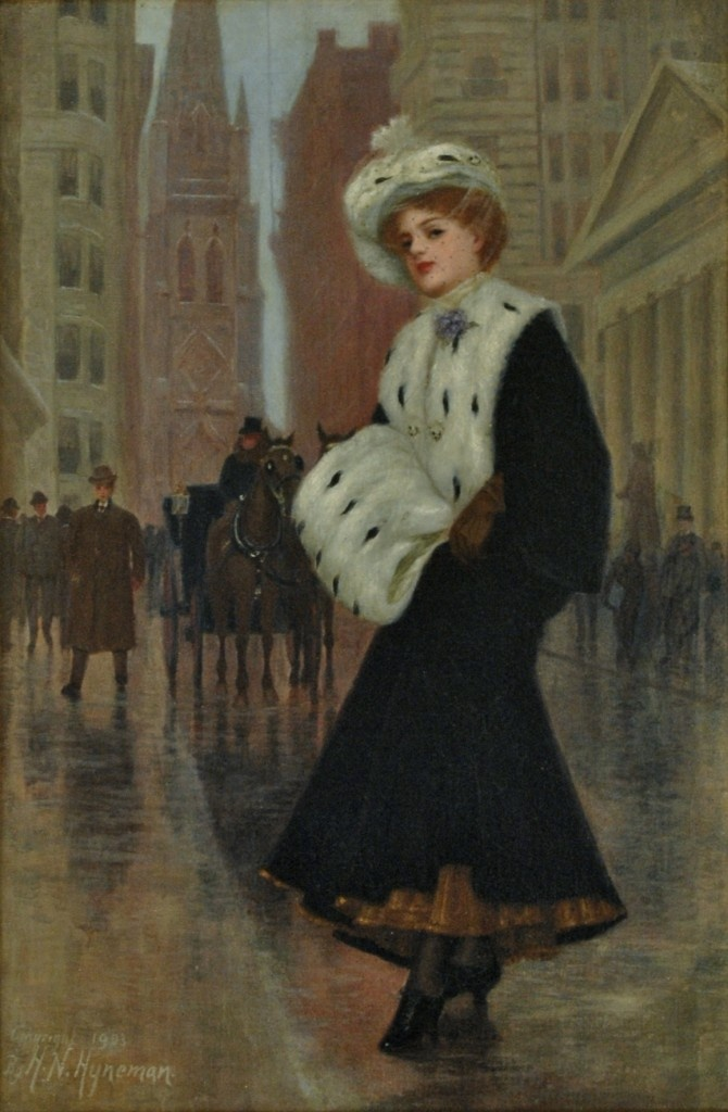 "A Sensation on Wall Street" by Herman Naptali Hyneman